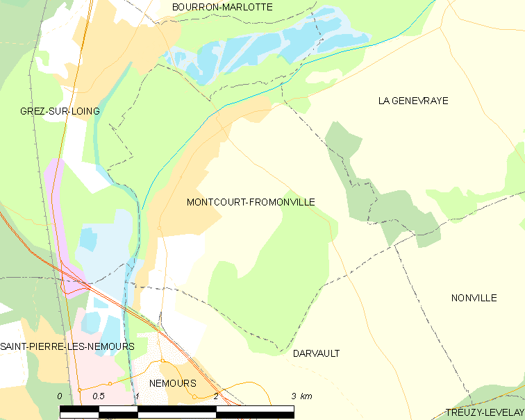 Map of French municipality Montcourt-Fromonville